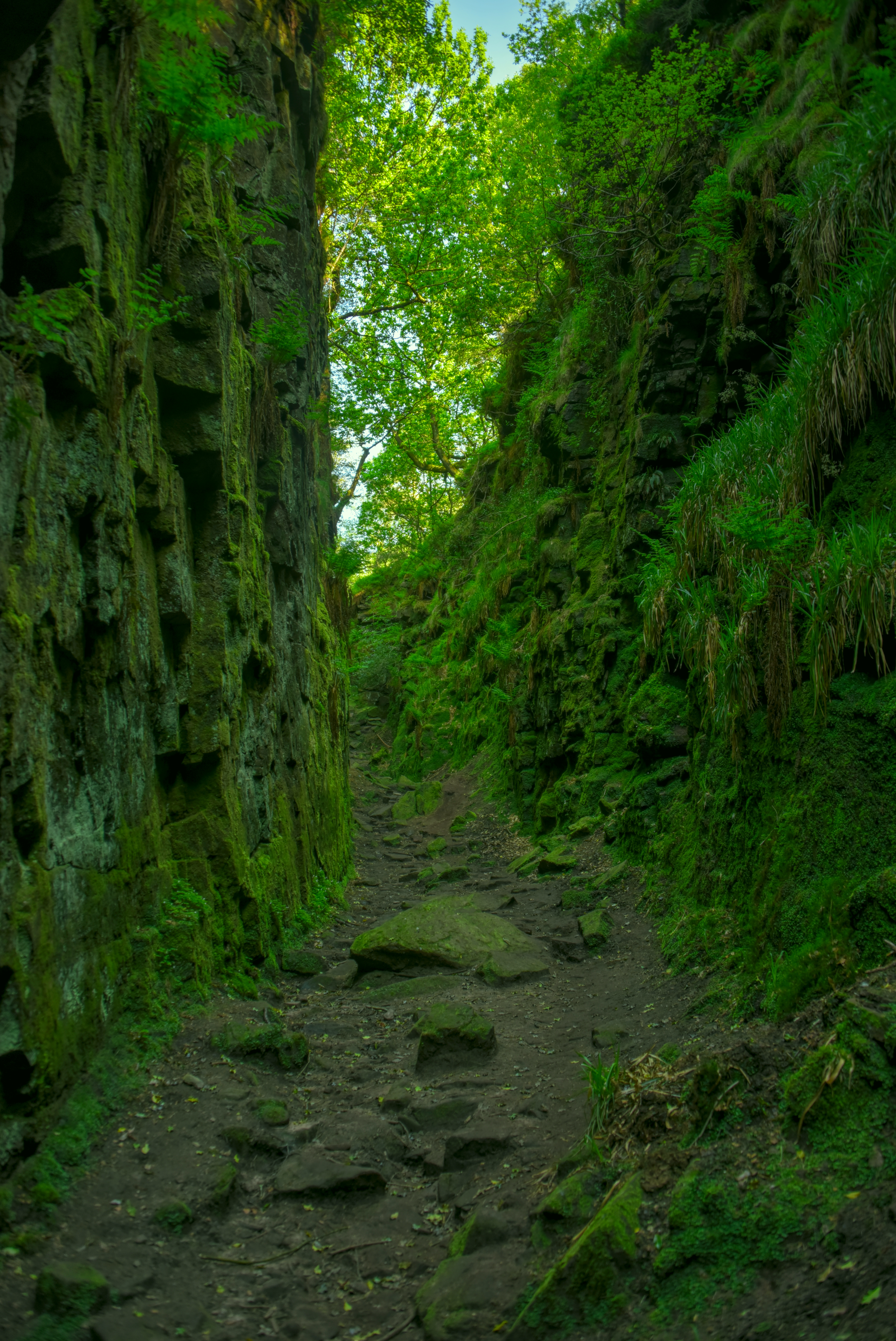 Lud's Church, a very narrow ravine in England's Peak District National Park, reputed to be the model for the "Green Chapel" in the medieval poem "Sir Gawain and the Green Knight."